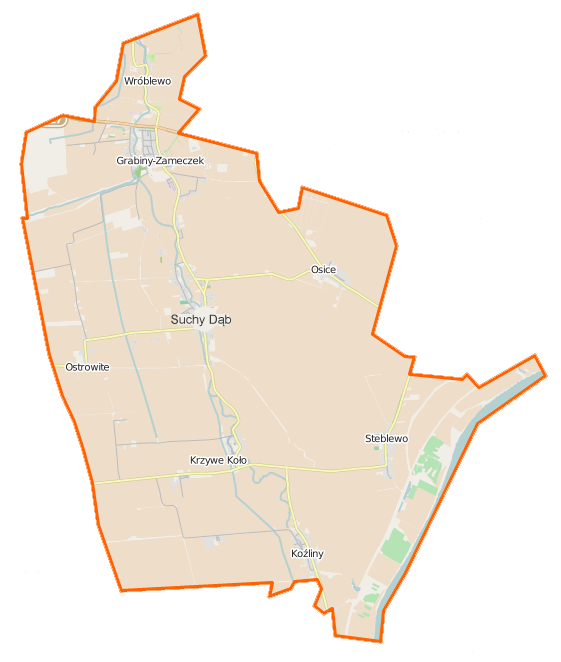 Map of Gmina Suchy Dąb, Poland This map of Suchy Dąb (gmina) was created from OpenStreetMap project data, collected by the community. This map may be incomplete, and may contain errors. Don't rely solely on it for navigation.